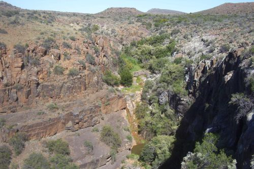 A Waterfall in the otherwise dry Karoo National Park, in South Africa.